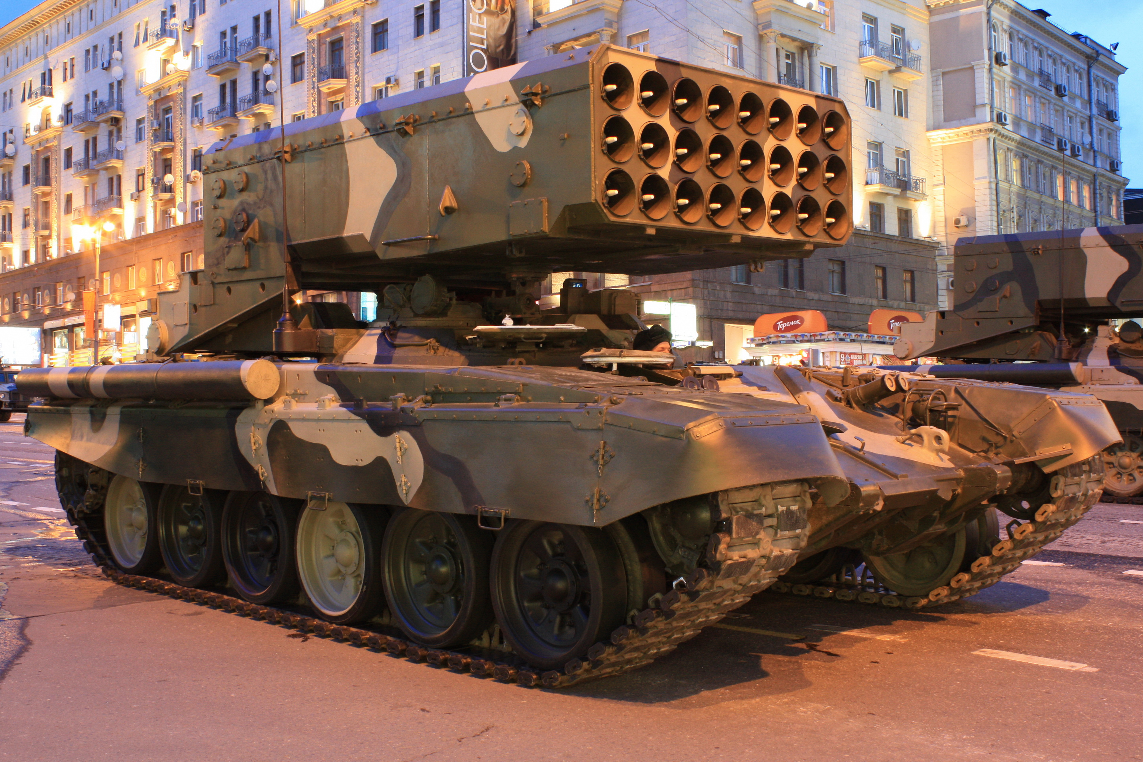 TOS-1A